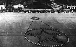 The Ceremonial Opening of the Red Stadium in Kiev, 1923. Pre-1954 image, unknown author. From: [1], web site of the municipal company that operates the complex.